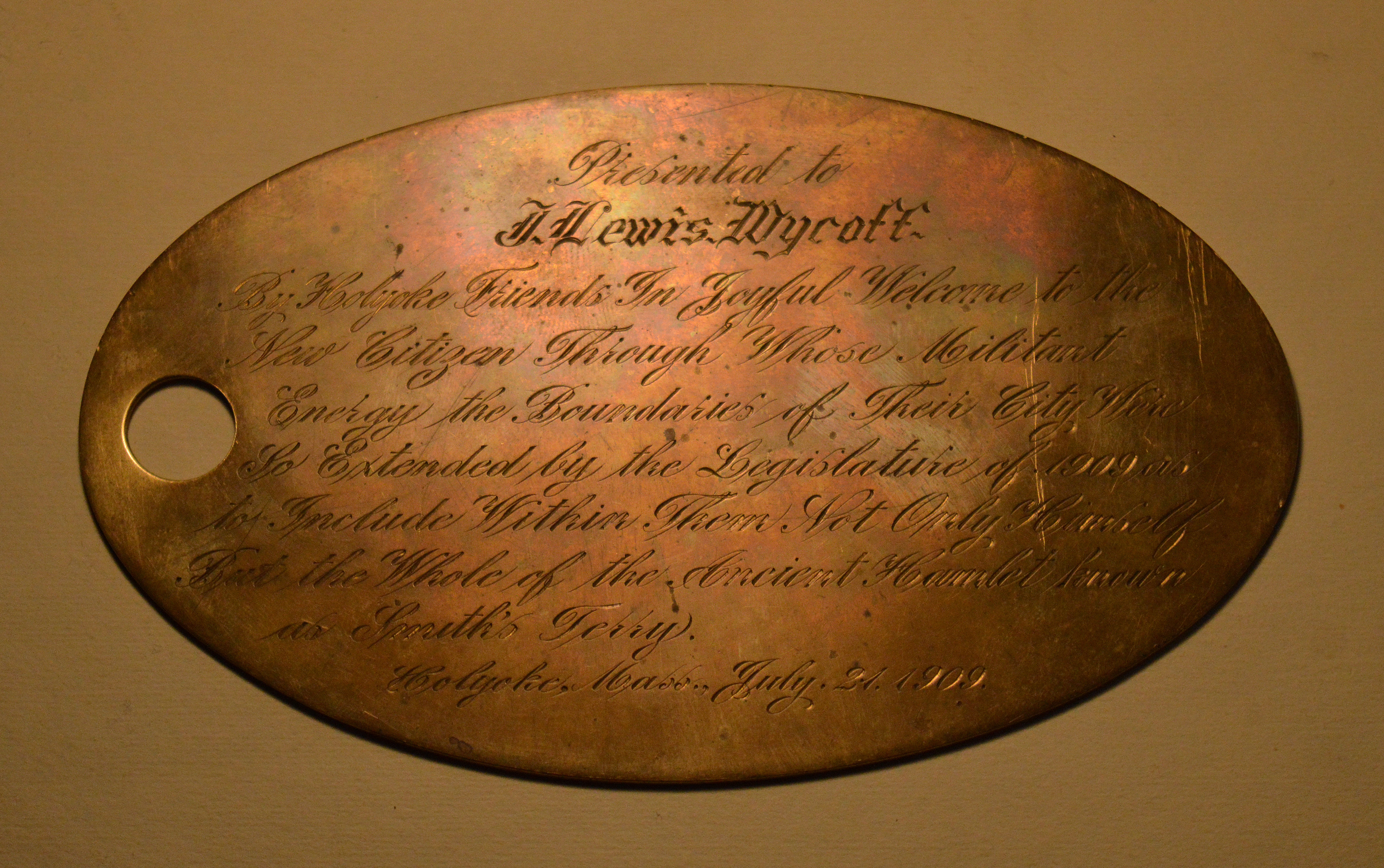 Presentation plaque for Joseph Lewis Wyckoff, originally attached to "keys to the city", presented to him as an honor for leading efforts for Holyoke to annex Smith's Ferry from Northampton, Massachusetts. It reads- Presented to J. Lewis Wycoff [sic] By Holyoke Friends In Joyful Welcome to the New Citizen Through Whose Militant Energy the Boundaries of Their City Were So Extended by the Legislature of 1909 as to Include Within Them Not Only Himself But the Whole of the Ancient Hamlet known as Smith's Ferry. Holyoke, Mass. July 21, 1909